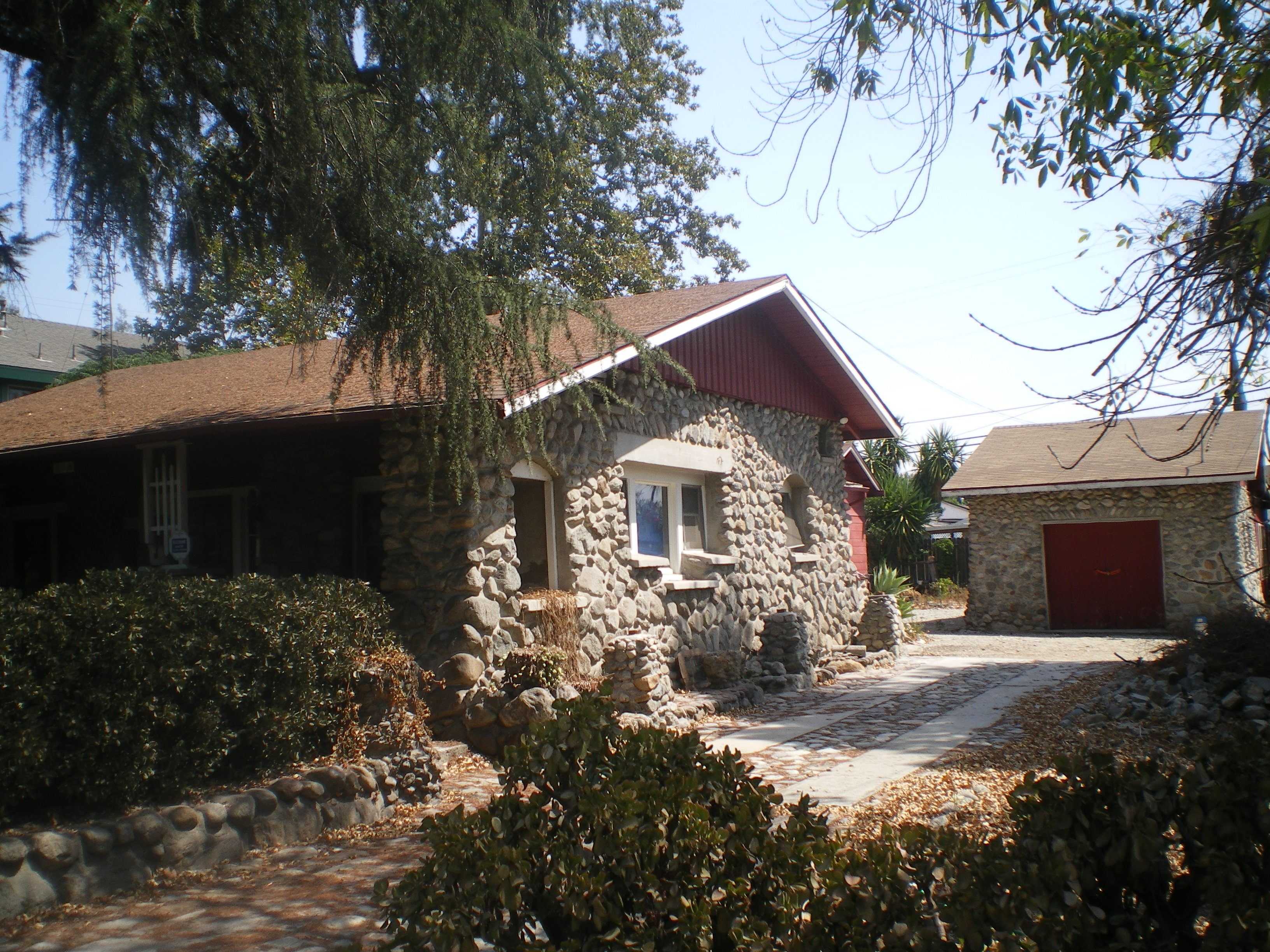 House at 306 South Mills Avenue, Russian Village District, Claremont, Califoria